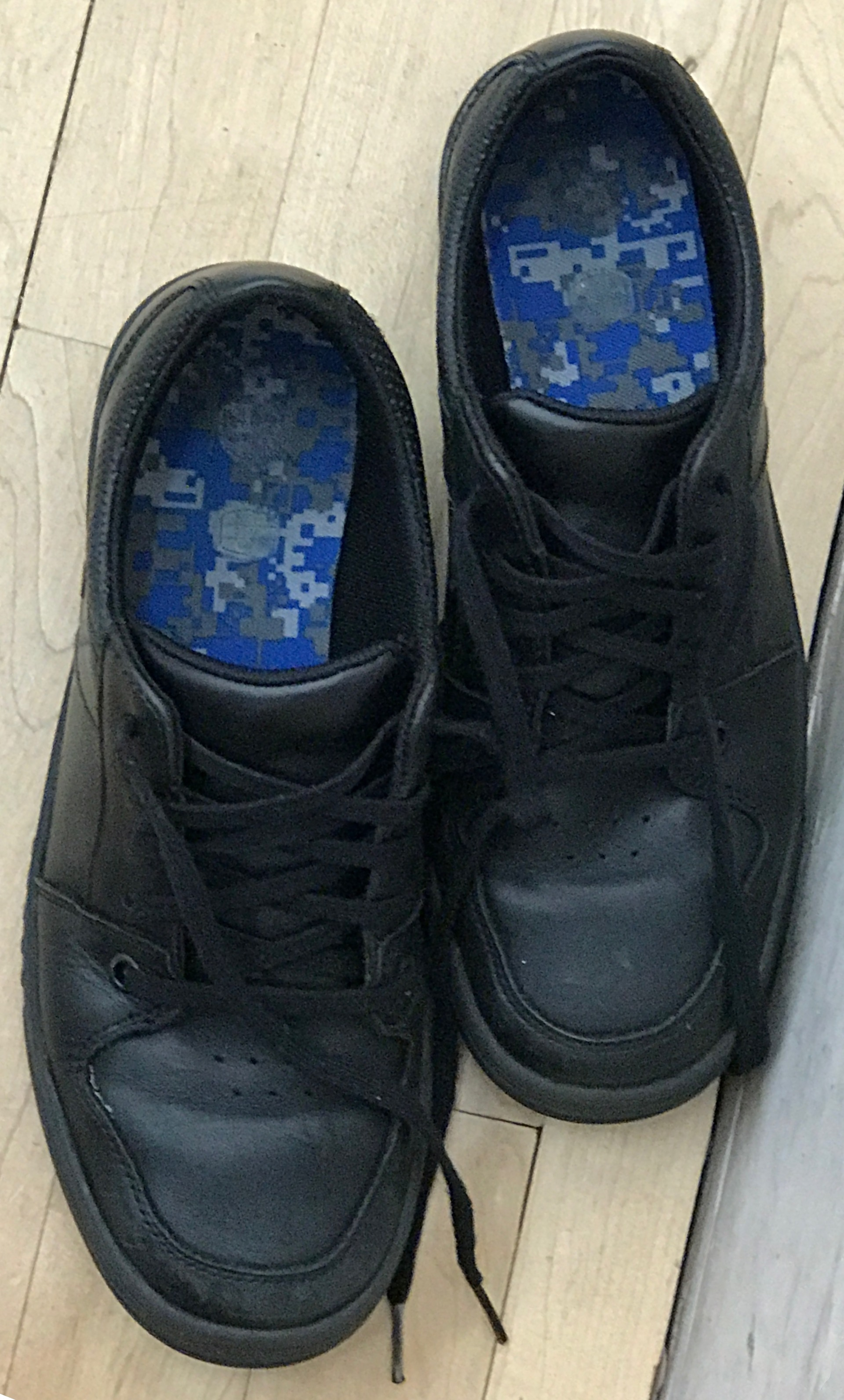 A pair of boys Clarks Bootleg school shoes.